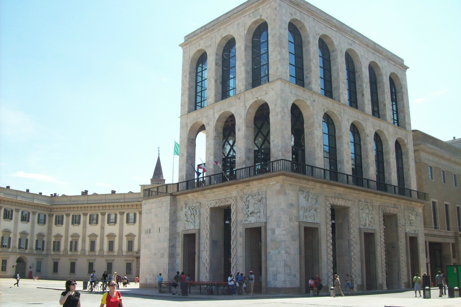 Arengario - museo del 900 - Milan